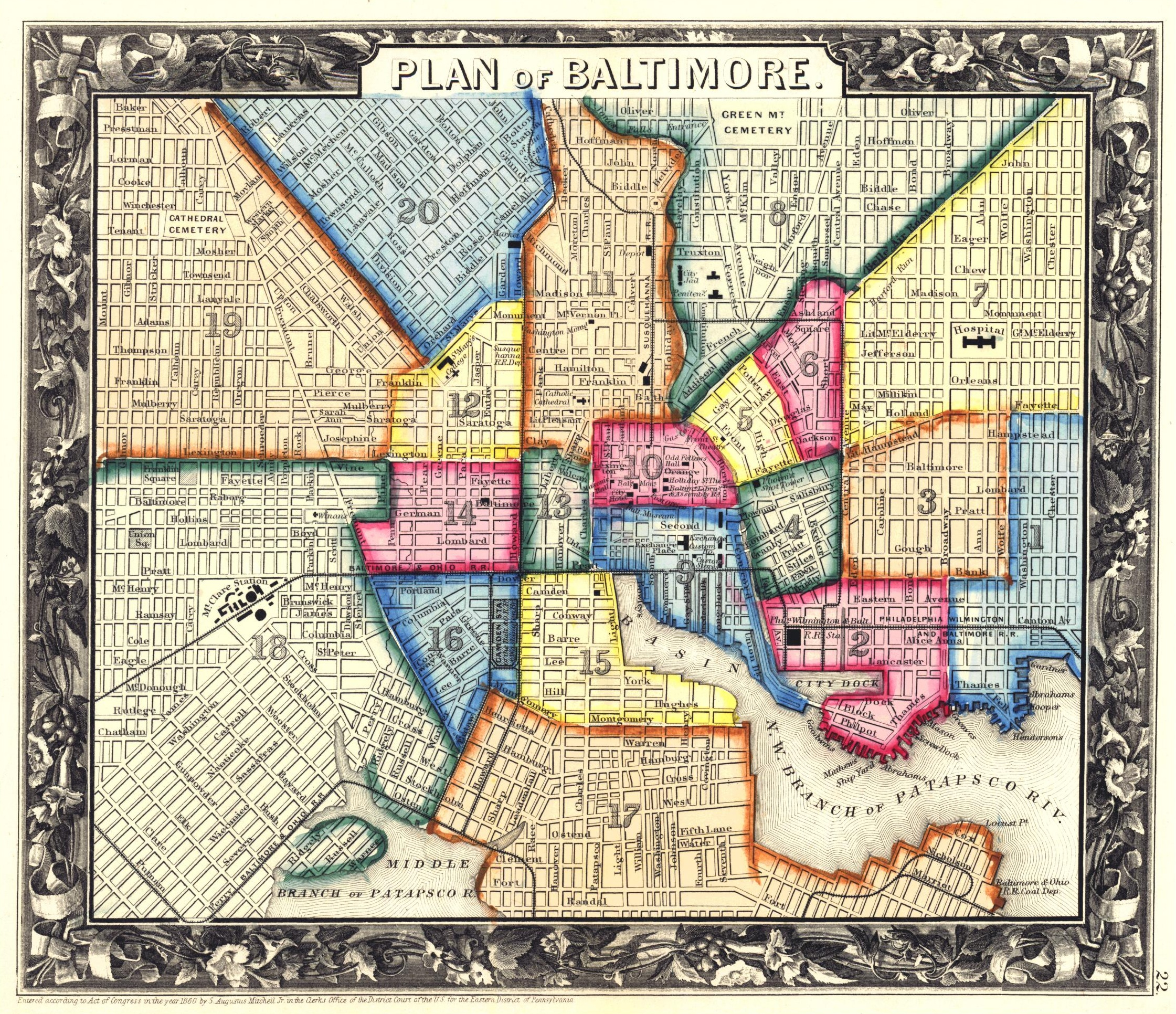 Baltimore Street Map, 1860.